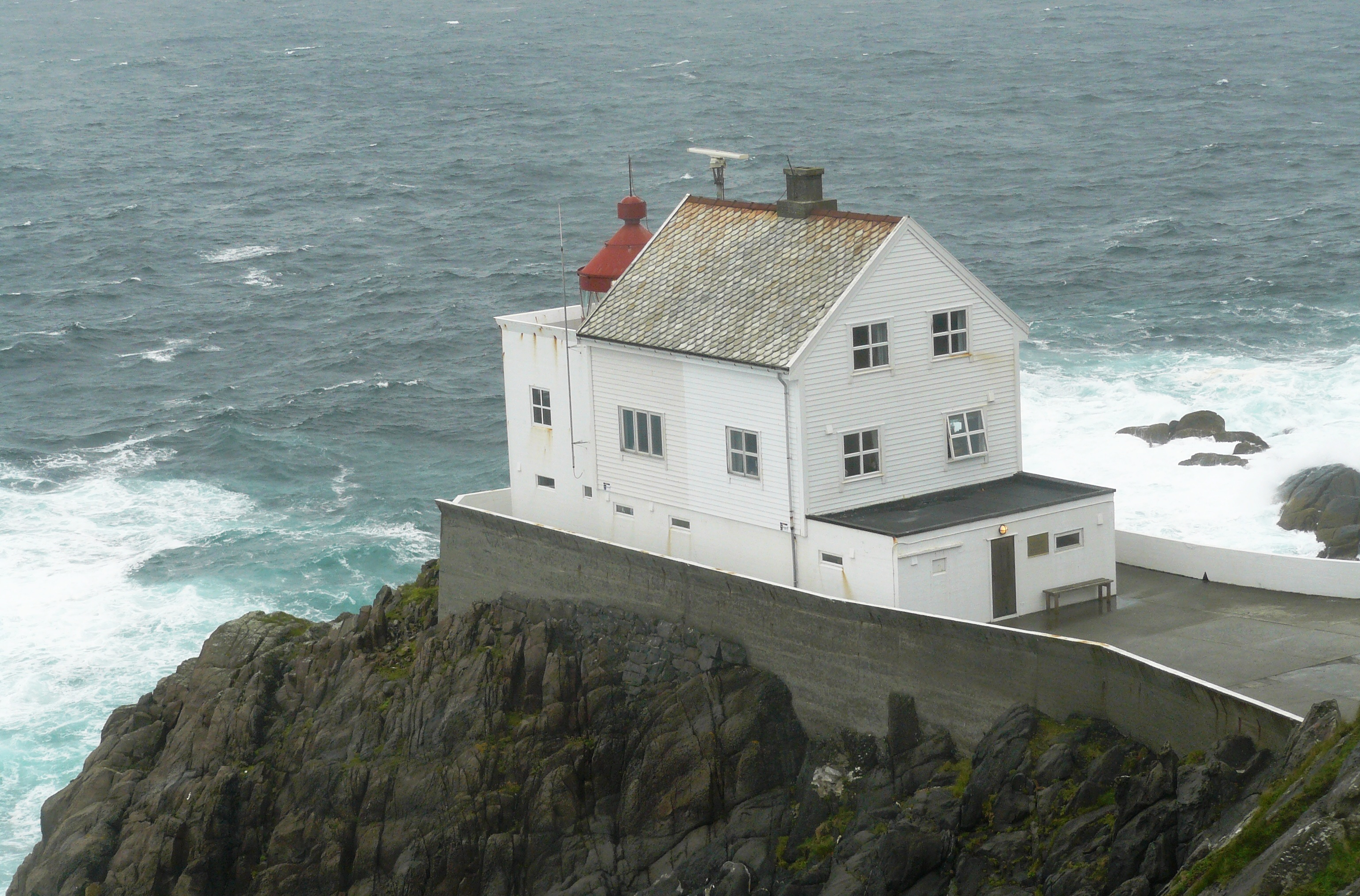 Kråkenes lighthouse (from 1906) is located on the westernmost part of Vågsøy, west of Måløy in Sogn og Fjordane, Norway. The lighthouse has its own weatherstation and a spectacular ocean view.